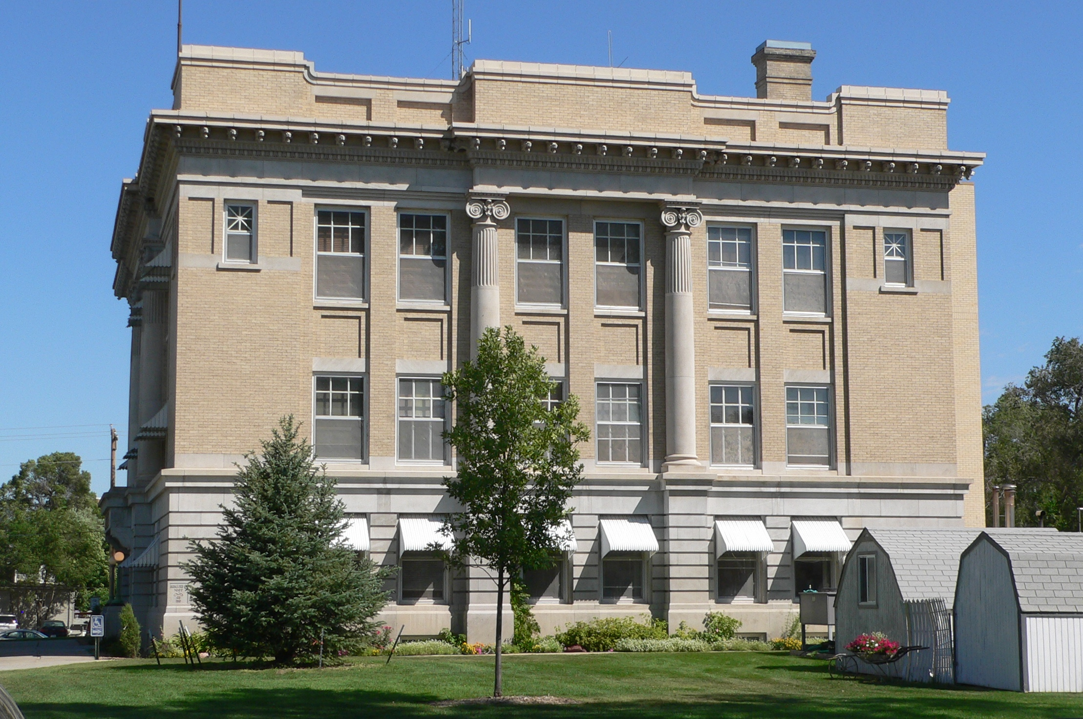 Box Butte County Courthouse on east side of Box Butte Avenue between 5th and 6th Streets in Alliance, Nebraska; seen from the south. The cornerstone of the Beaux-Arts building was laid in 1913. The courthouse is listed in the National Register of Historic Places.